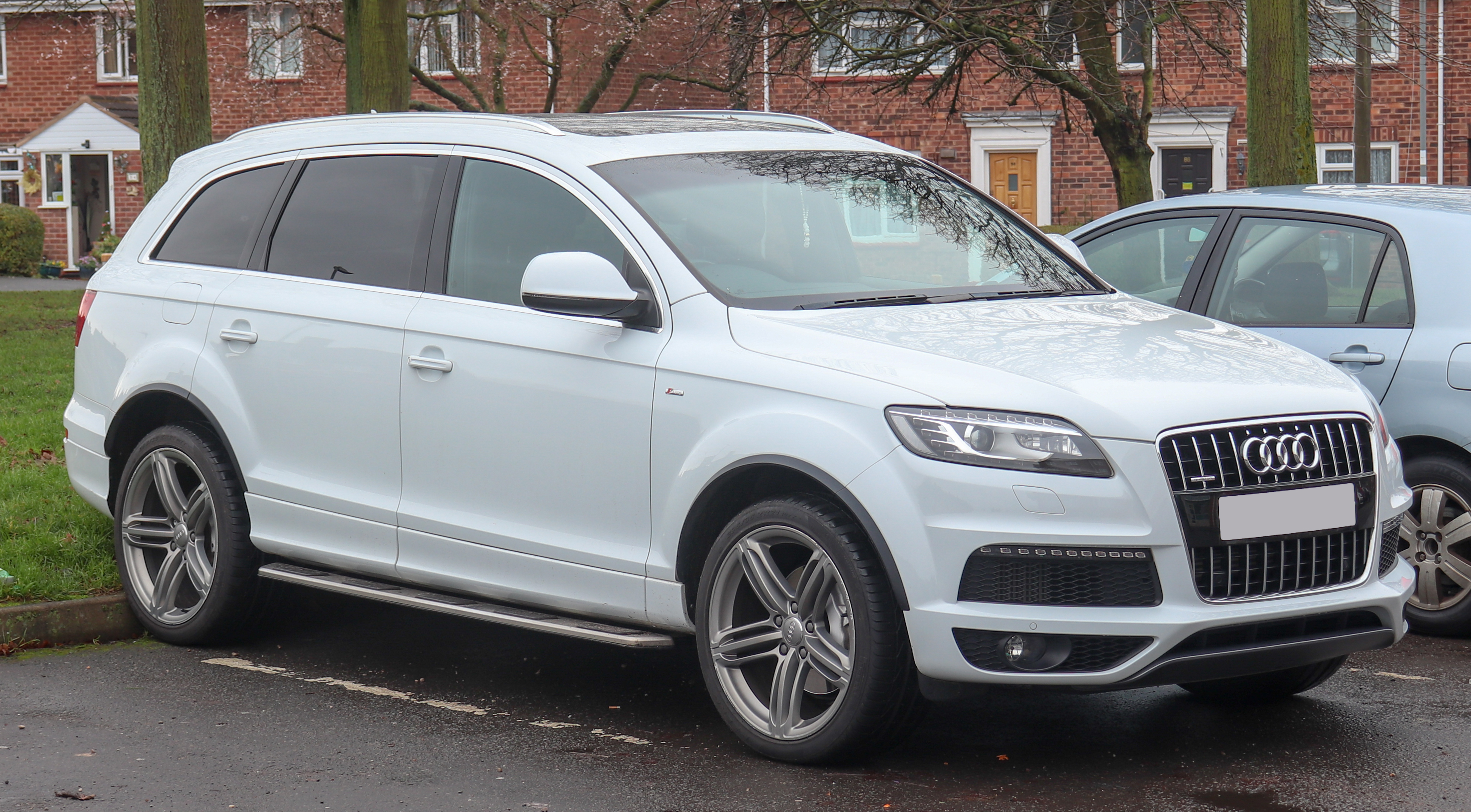 2014 Audi Q7 S Line+ TDi Quattro Automatic 3.0 Taken in Whitnash